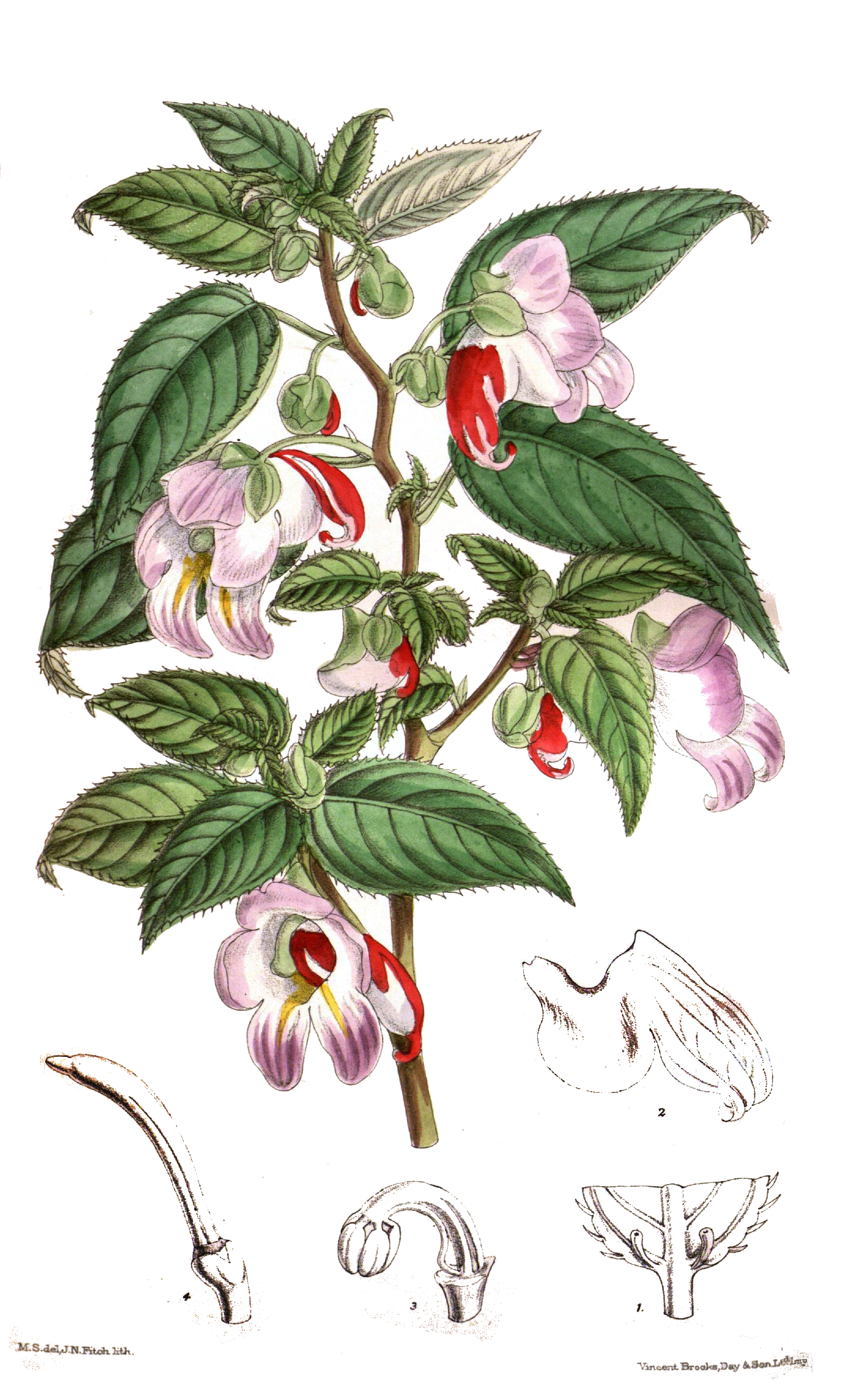 Impatiens psittacina, illustration by John Nugent Fitch accompanying J D Hooker's original description